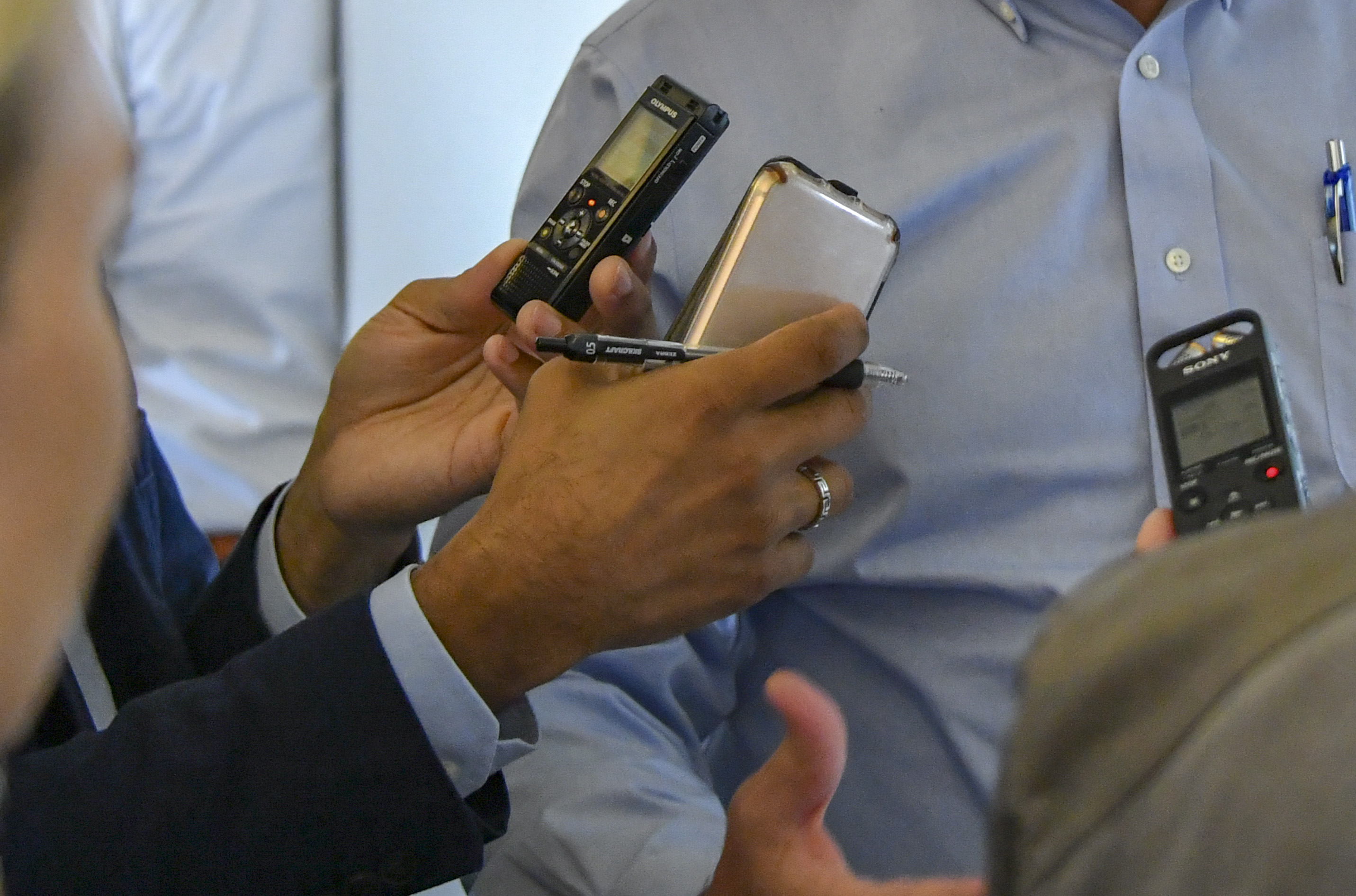 Secretary Michael R. Pompeo briefs the traveling press en route to Kuala Lumpur, Malaysia. [State Department photo/ Public Domain]